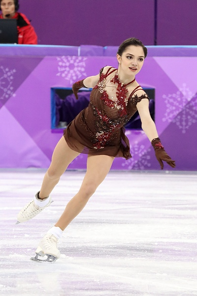 Evgenia Medvedeva at the 2018 Winter Olympic Games - Free program